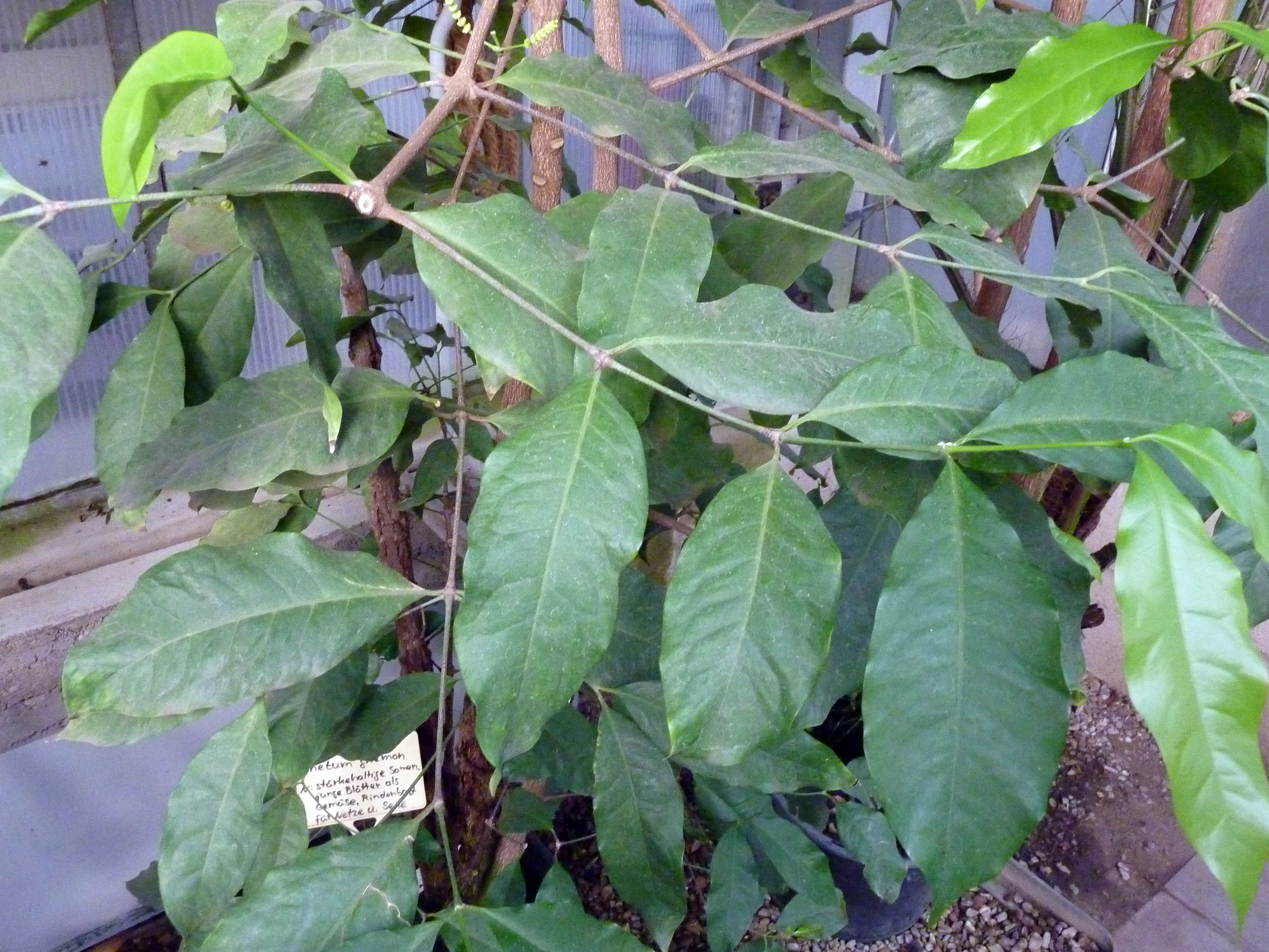 Gnetum gnemon growing in the greenhouse of the Deutsches Institut für tropische und subtropische Landwirtschaft, Witzenhausen, Germany